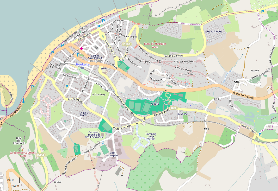 Plan of Houlgate, Calvados.